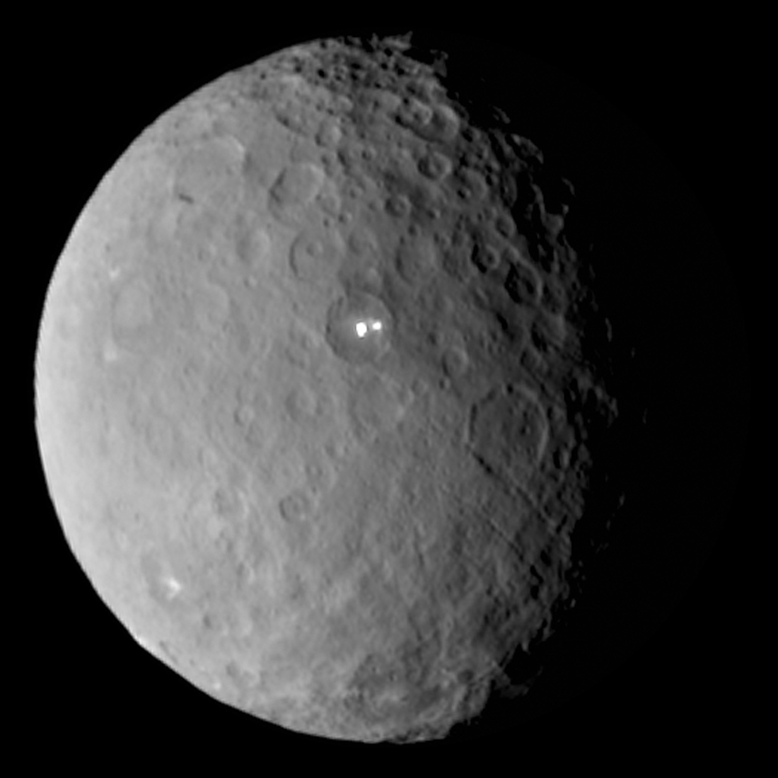 Images - March 2, 2015 Ceres Awaits Dawn Ceres rotates in this frame from a movie comprised of images taken by NASA's Dawn mission during its approach to the dwarf planet. The images were taken on Feb. 19, 2015, from a distance of nearly 29,000 miles (46,000 kilometers). Click here for animation of PIA18920 Ceres rotates in this sped-up movie comprised of images taken by NASA's Dawn mission during its approach to the dwarf planet. The images were taken on Feb. 19, 2015, from a distance of nearly 29,000 miles (46,000 kilometers). Dawn observed Ceres for a full rotation of the dwarf planet, which lasts about nine hours. The images have a resolution of 2.5 miles (4 kilometers) per pixel. Dawn's mission is managed by NASA's Jet Propulsion Laboratory, Pasadena, California, for NASA's Science Mission Directorate in Washington. Dawn is a project of the directorate's Discovery Program, managed by NASA's Marshall Space Flight Center in Huntsville, Alabama. The University of California, Los Angeles, is responsible for overall Dawn mission science. Orbital ATK, Inc., in Dulles, Virginia, designed and built the spacecraft. The German Aerospace Center, the Max Planck Institute for Solar System Research, the Italian Space Agency and the Italian National Astrophysical Institute are international partners on the mission team. For a complete list of acknowledgments